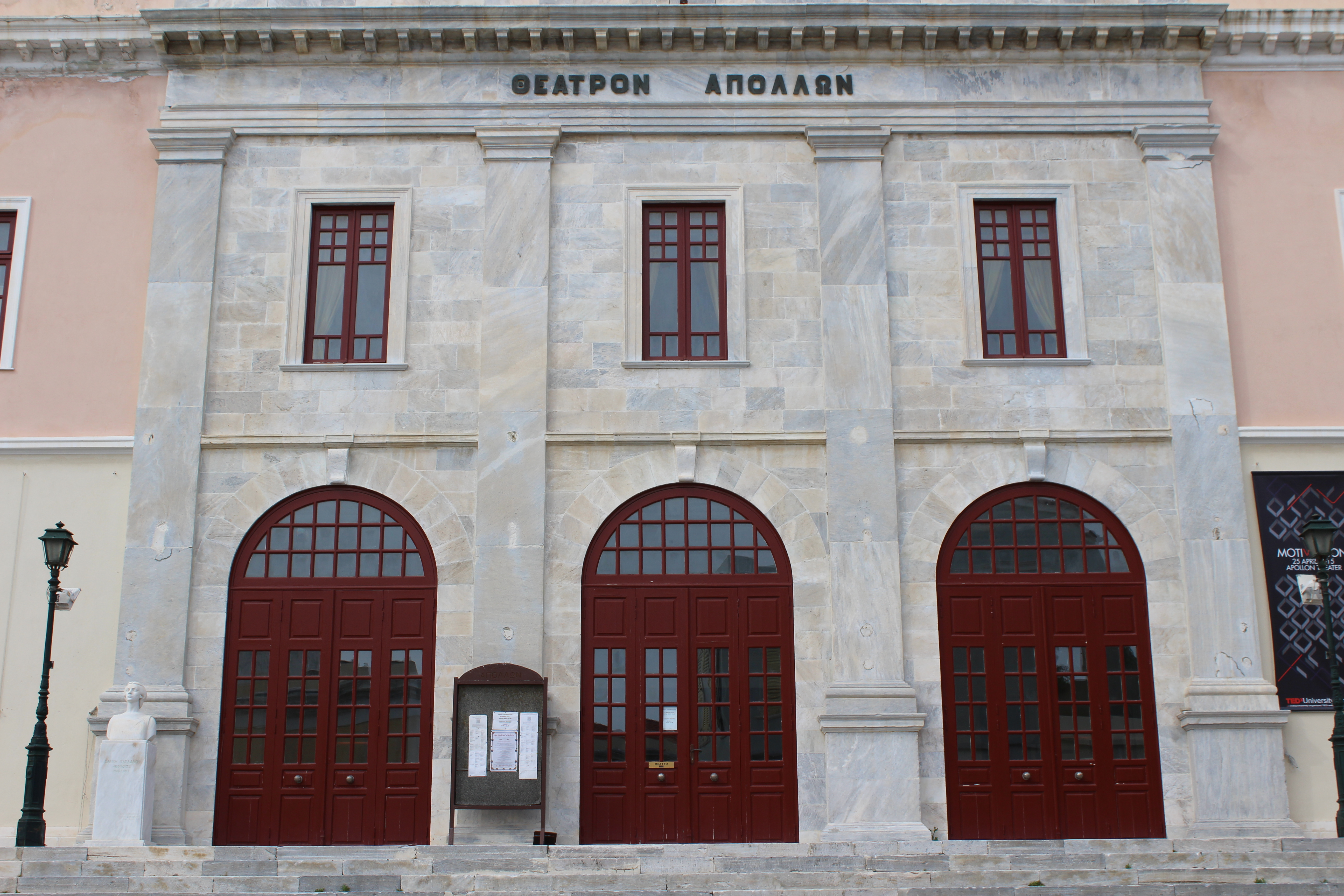 Apollon Theater, in Ermoupolis, Syros